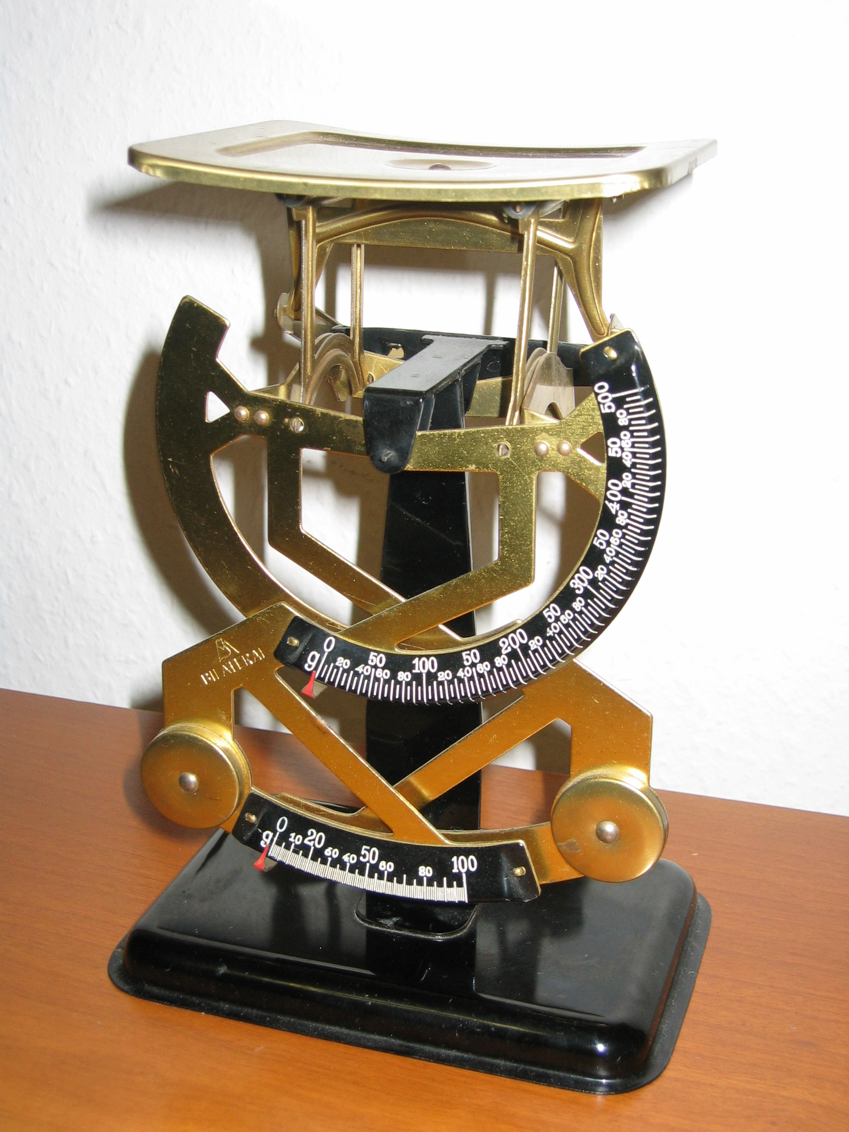 Letter balance